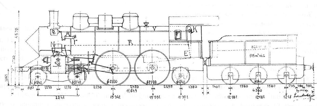 Drawing of steam loco MÁV Class 202